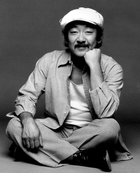 Promotional photo of actor Pat Morita for the ABC television series Mr. T and Tina.